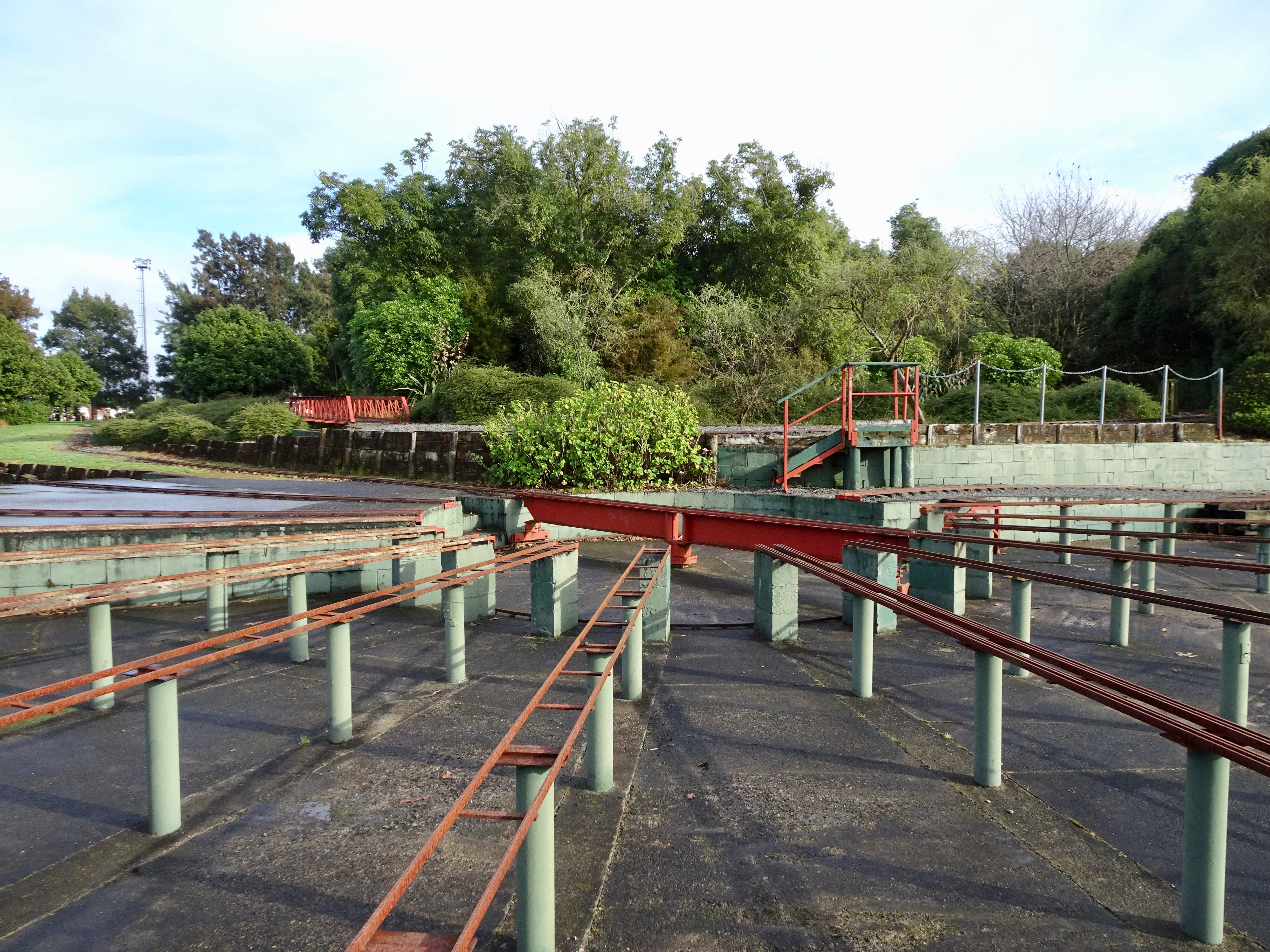 Part of the 1.6km of track at Minogue Park